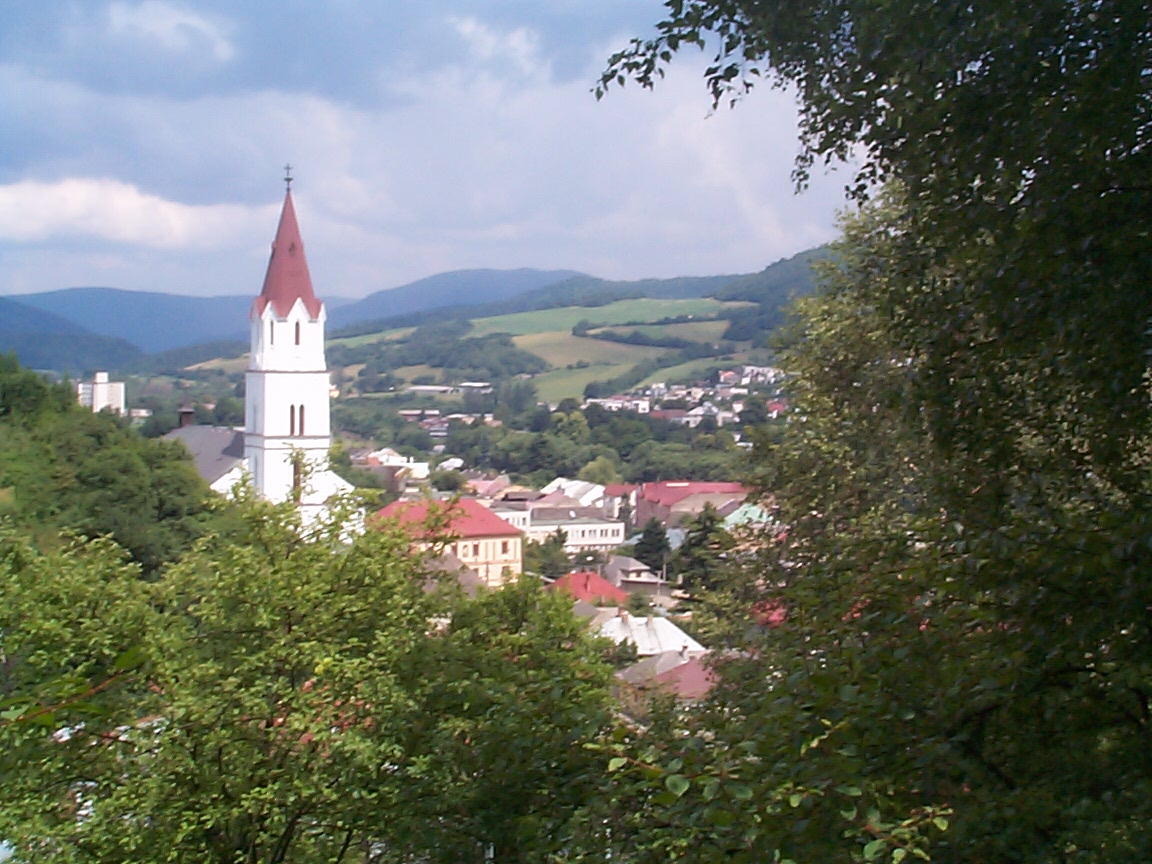 View of the Roman Catholic Church in Gelnica, Slovakia.